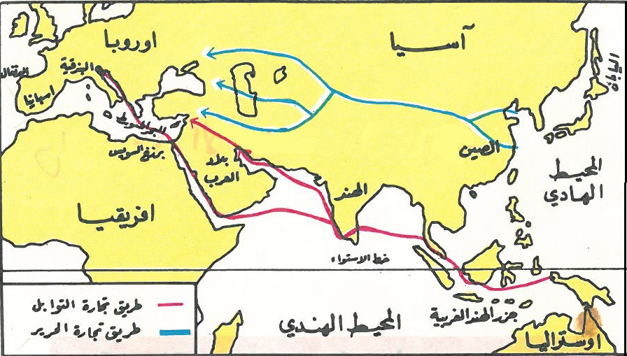 Most famous trade routs with the far east in the late 15th century.